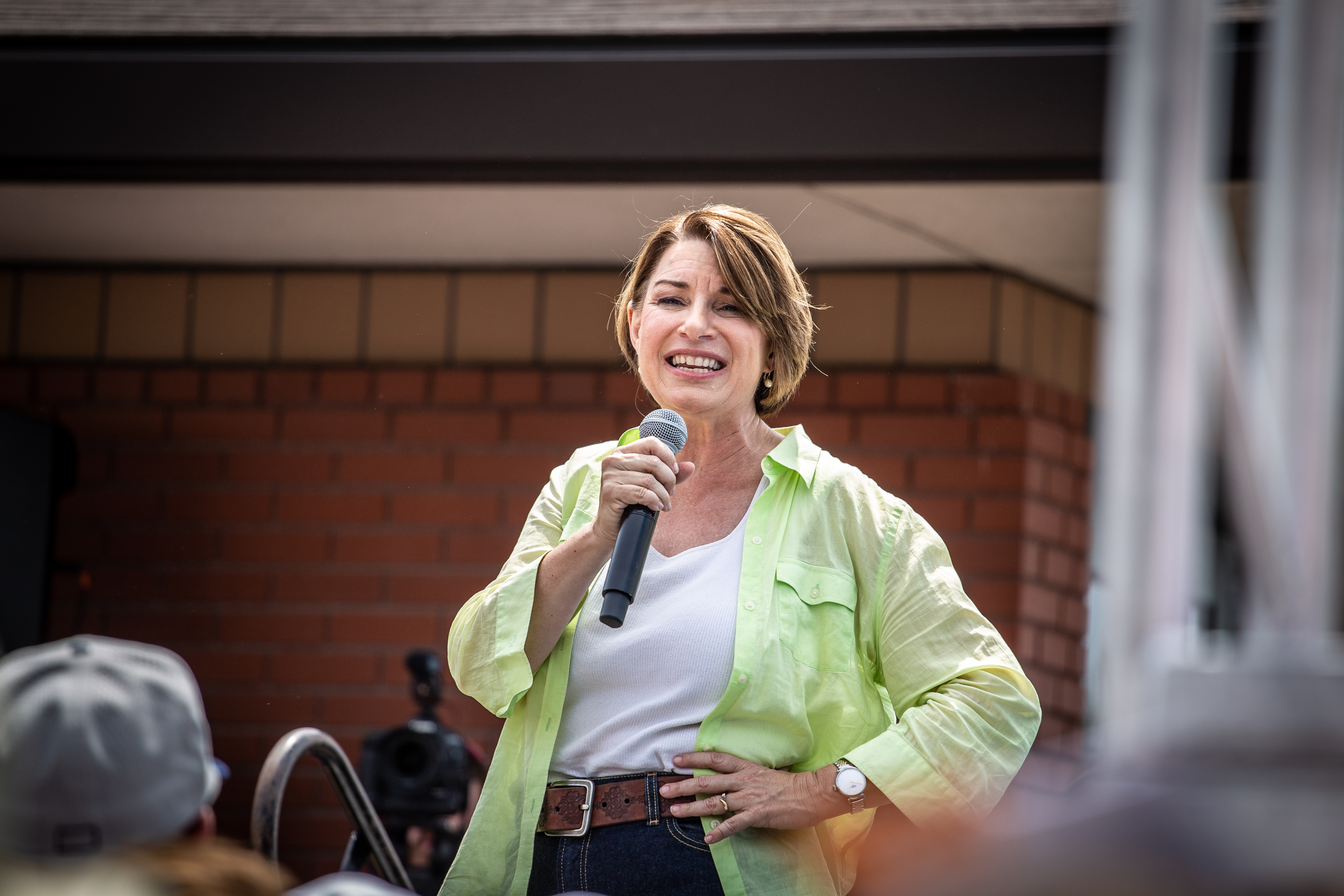 U.S. Senator Amy Klobuchar. Photographs of or around the Des Moines Register Political Soapbox at the 2019 Iowa State Fair as eight Democratic presidential candidates dropped by to speak on Saturday, August 10.